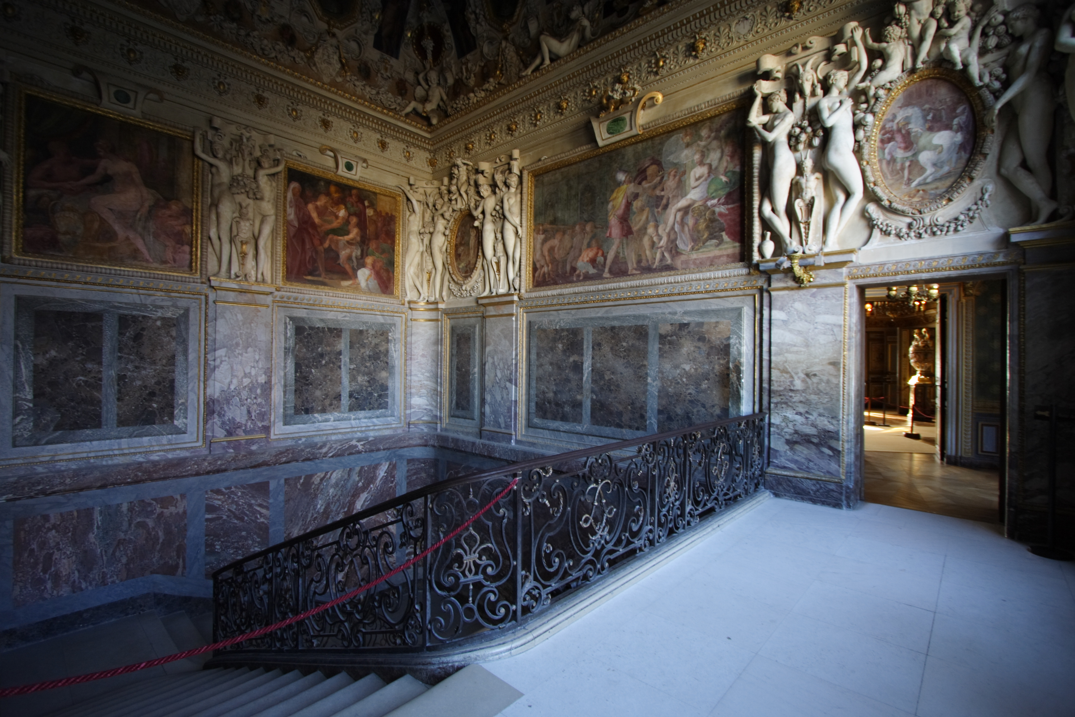 The king's staircase of the Palace of Fontainebleau, previously the bedroom of Madame d'Étampes